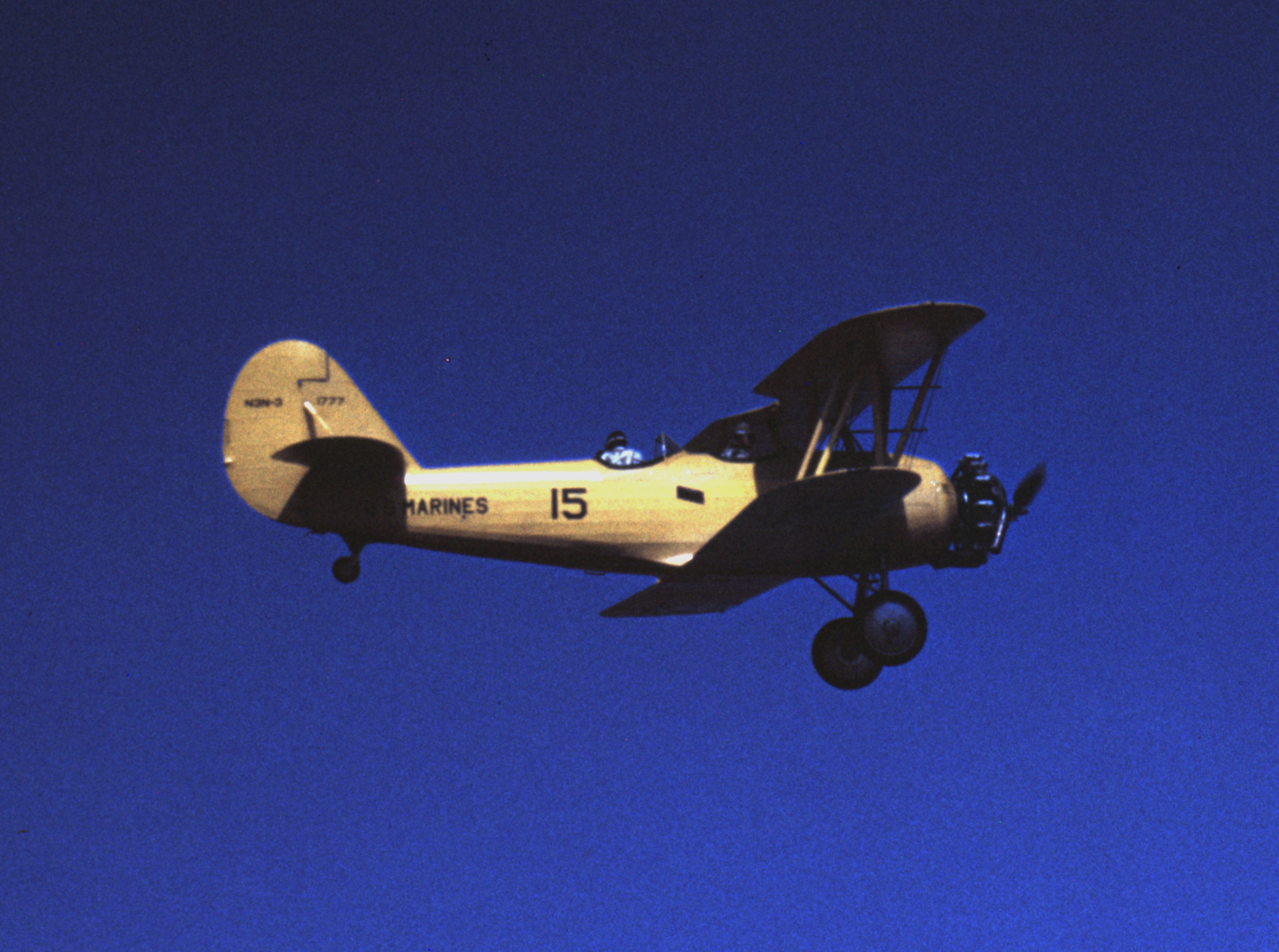 A U.S. Marine Corps Naval Aircraft Factory N3N-3 Canary (BuNo 1777) over Parris Island, South Carolina (USA), in May 1942. The N3Ns were used to tow Schweizer LNS-1 gliders of the Marine glider program.